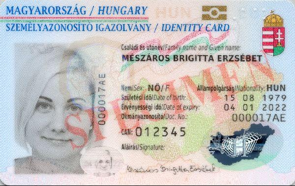 Hungarian ID